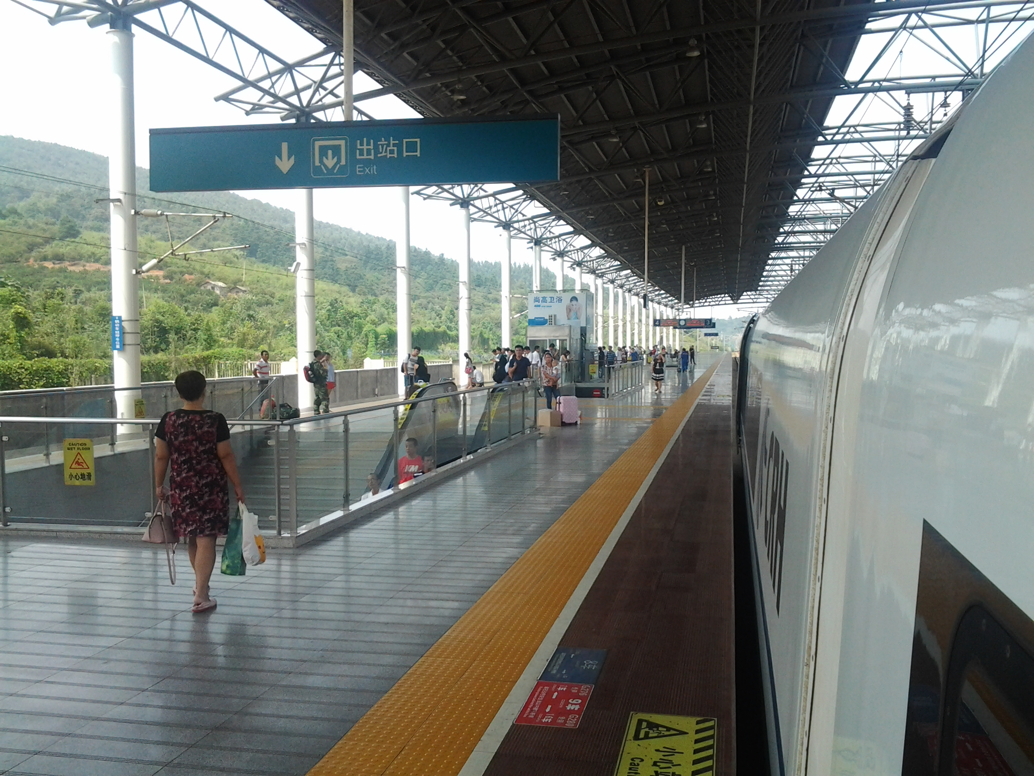 Chenzhou West Railway Station